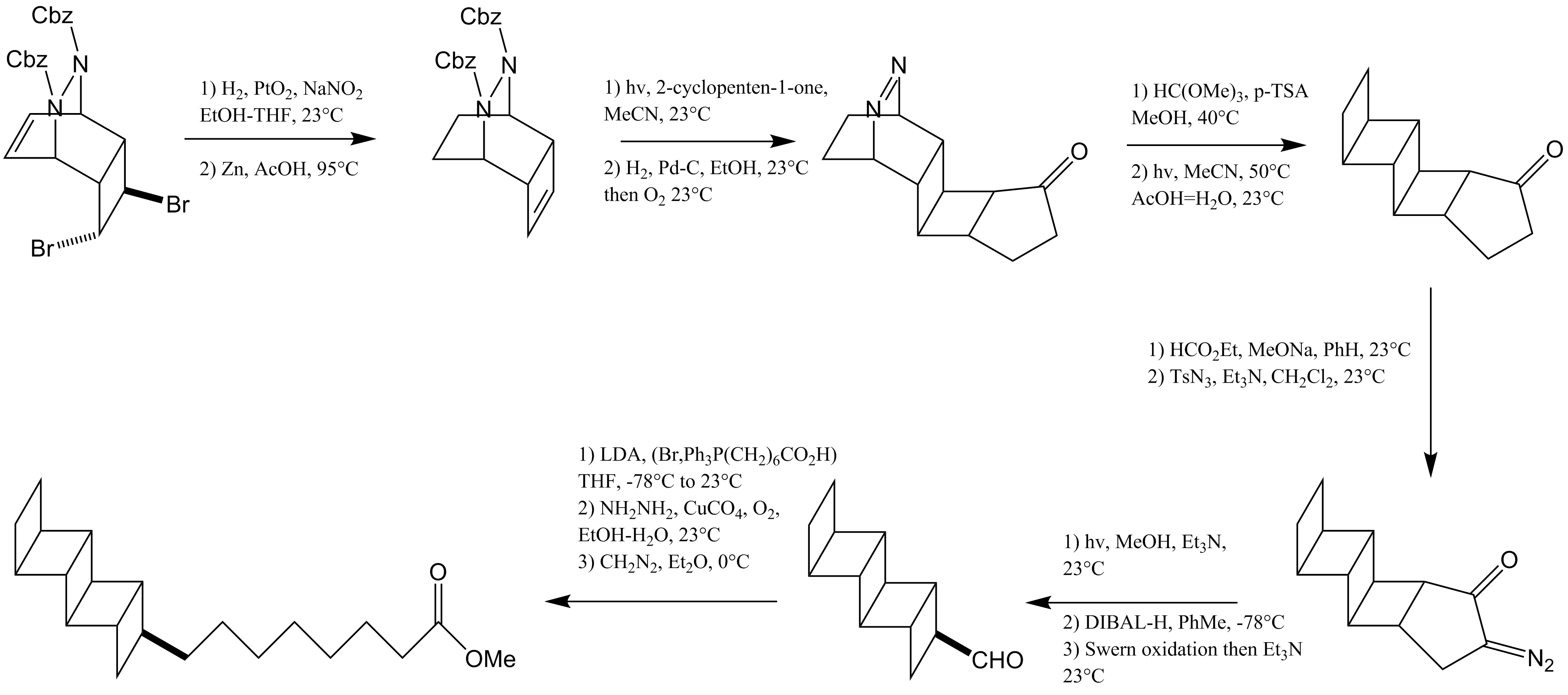 Pentacycloanammoxic acid synthesis involving ladderanes.